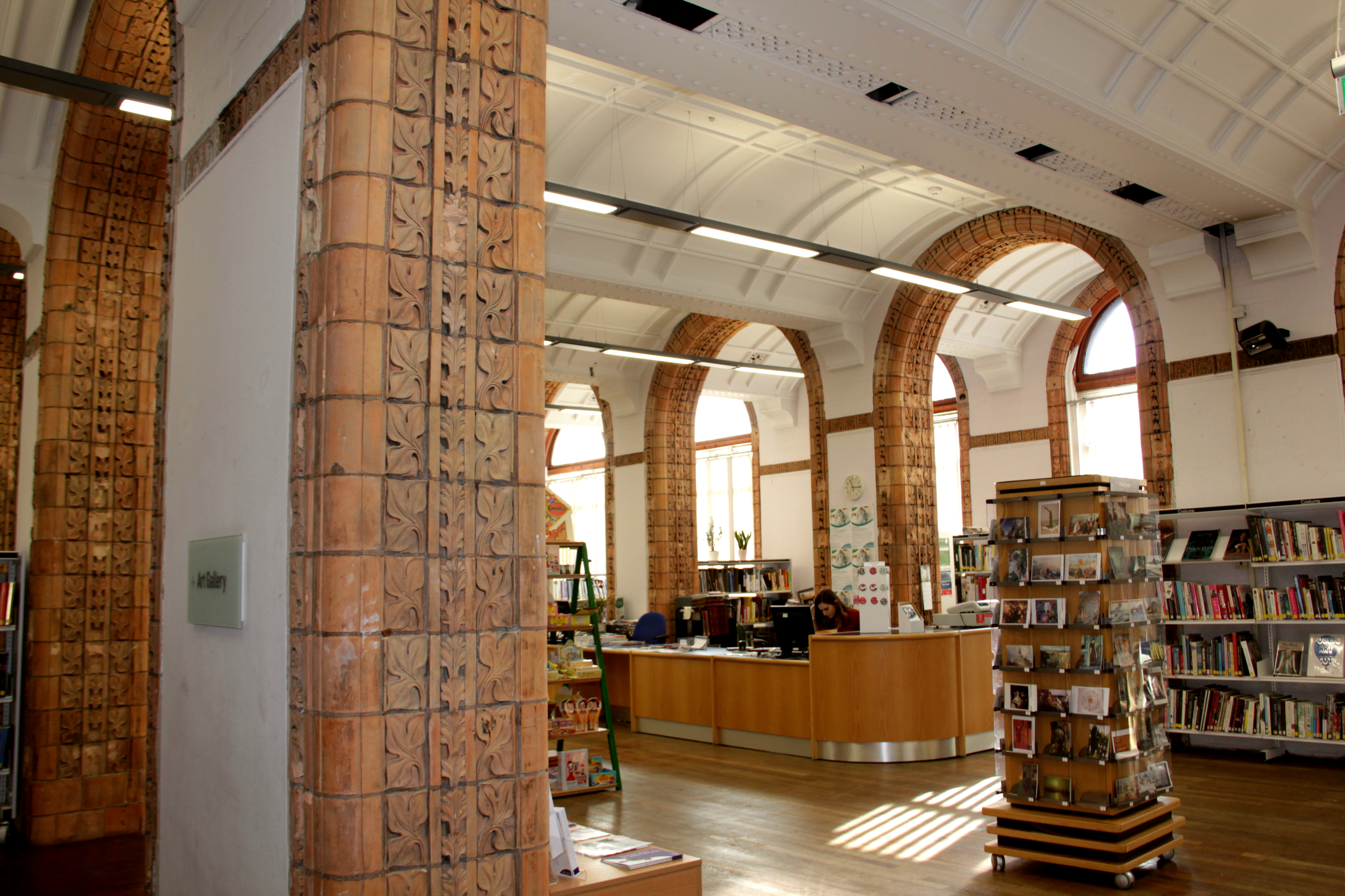 Interior of the former Municipal Buildings (now the Central Library), Leeds, West Yorkshire, England, built 1879-1884 to the design of George Corson. The general interior carving was executed by a team led by John Wormald Appleyard. The alabaster arch in the main entrance was made by Farmer & Brindley of London, and the reading room (now cafe) medallions were carved by Benjamin Creswick. George Wilson made the leaded clerestory windows of the original reference library, and Powell Bros made the rest of the stained glass and leaded lights. Doulton supplied the terracotta tiles in what is now (2019) the art library. Ceramic wall and floor tiles were supplied by E. Smith of Coalville, Leicester, and J. Taylor of Leeds. Curtis & Son made the bookcases and mirror screens in the gallery of the original reference library (as of 2019 the family history department). Jones of Manchester made the wrought-iron gates and railings outside, but Smith & Sons of Birmingham made the entrance gates, interior grilles and original door furniture (only a few of these last items remain). The interior was originally decoratively painted, in gold and colours, by J.T. Pollard of Leeds. Showing the art library, with its arches of Doulton terracotta tiles.